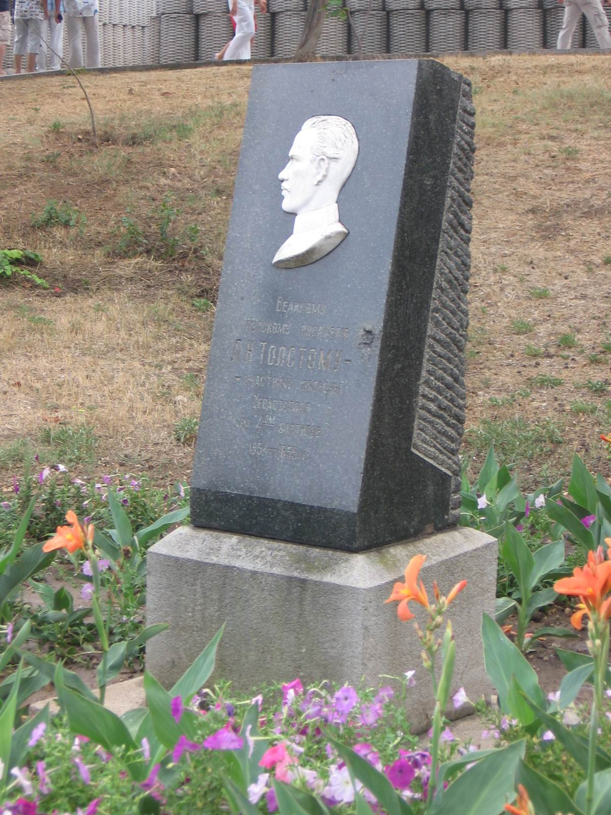 Stele in Memory of Leo Tolstoy's Stay on the 4th Bastion in Sevastopol. Built in 1955 by G.N.Denisov and I.I.Stepanov. It is one of the monuments to Heroic Defense of Sevastopol in 1854-1855.